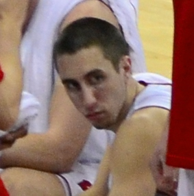 Wisconsin basketball player Josh Gasesr